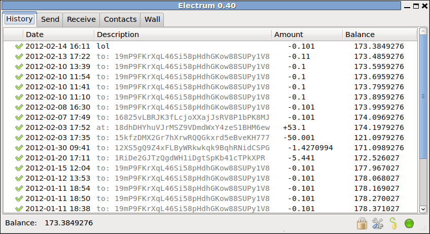 A screenshot of the Electrum Bitcoin client showing a history of transactions and the resulting balance